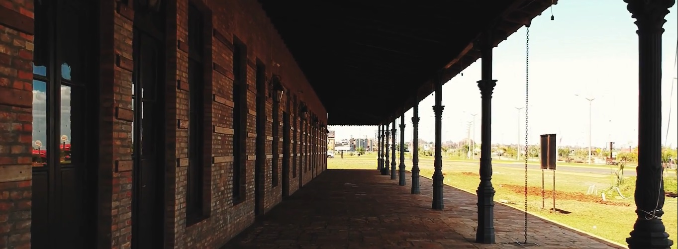 Train Station Museum in Encarnación, Paraguay